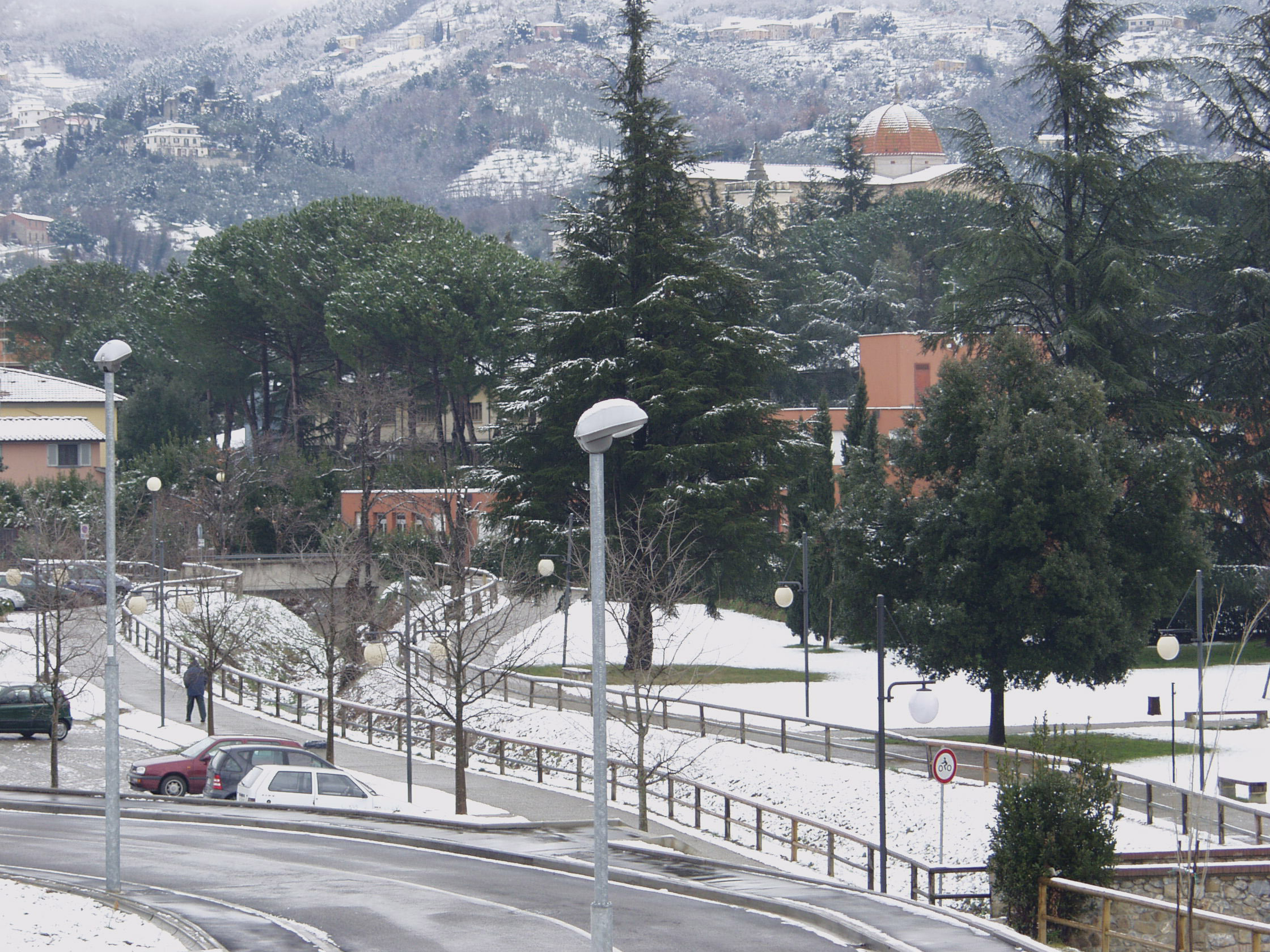 Public gardens with snow